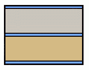 Cell diagram for wallpaper group type pm.